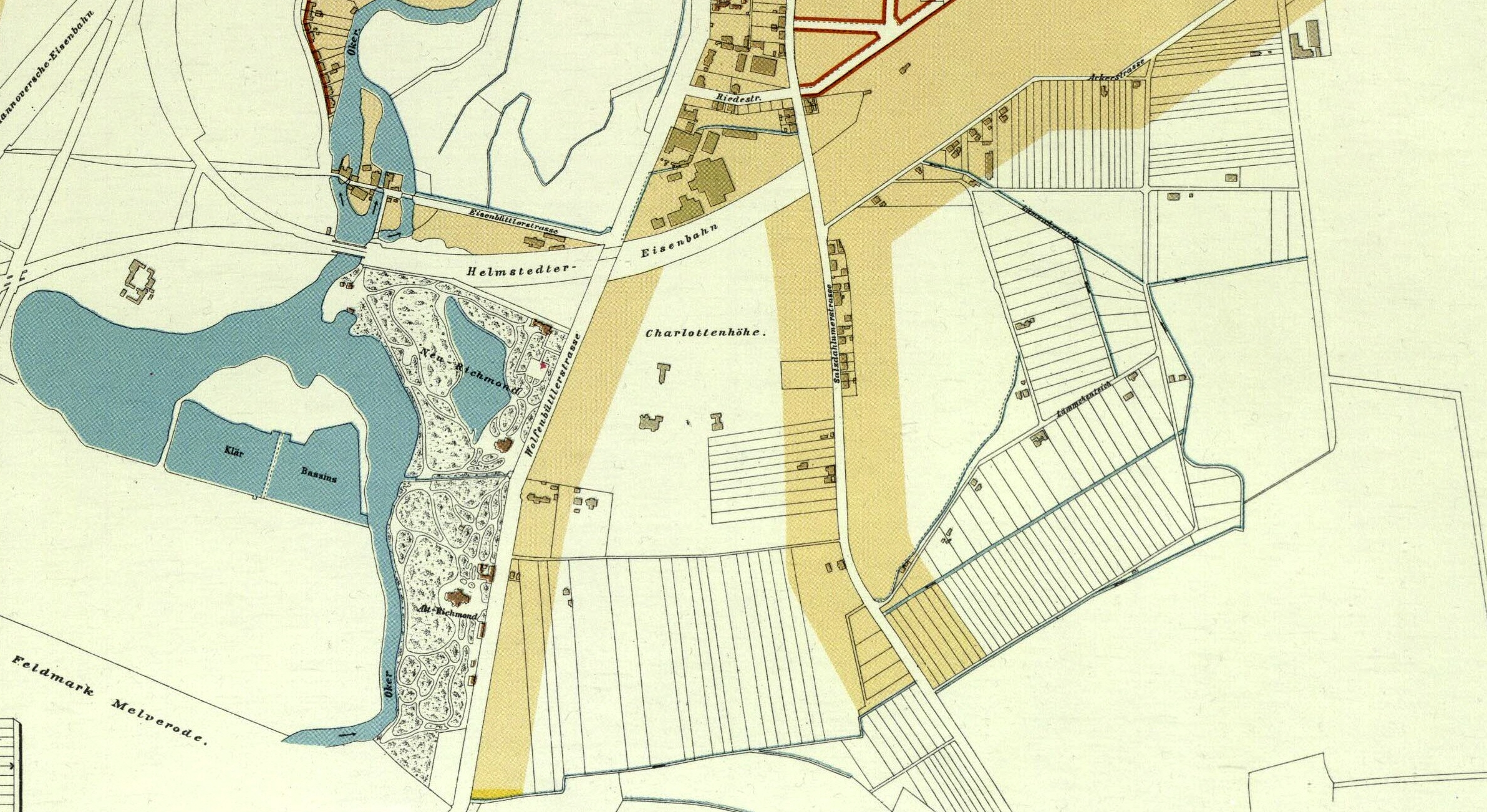 Braunschweig, Germany: Extraction from Municipal development and construction plan from Ludwig Winter, cartographed by Friedrich Knoll, dated 1889.